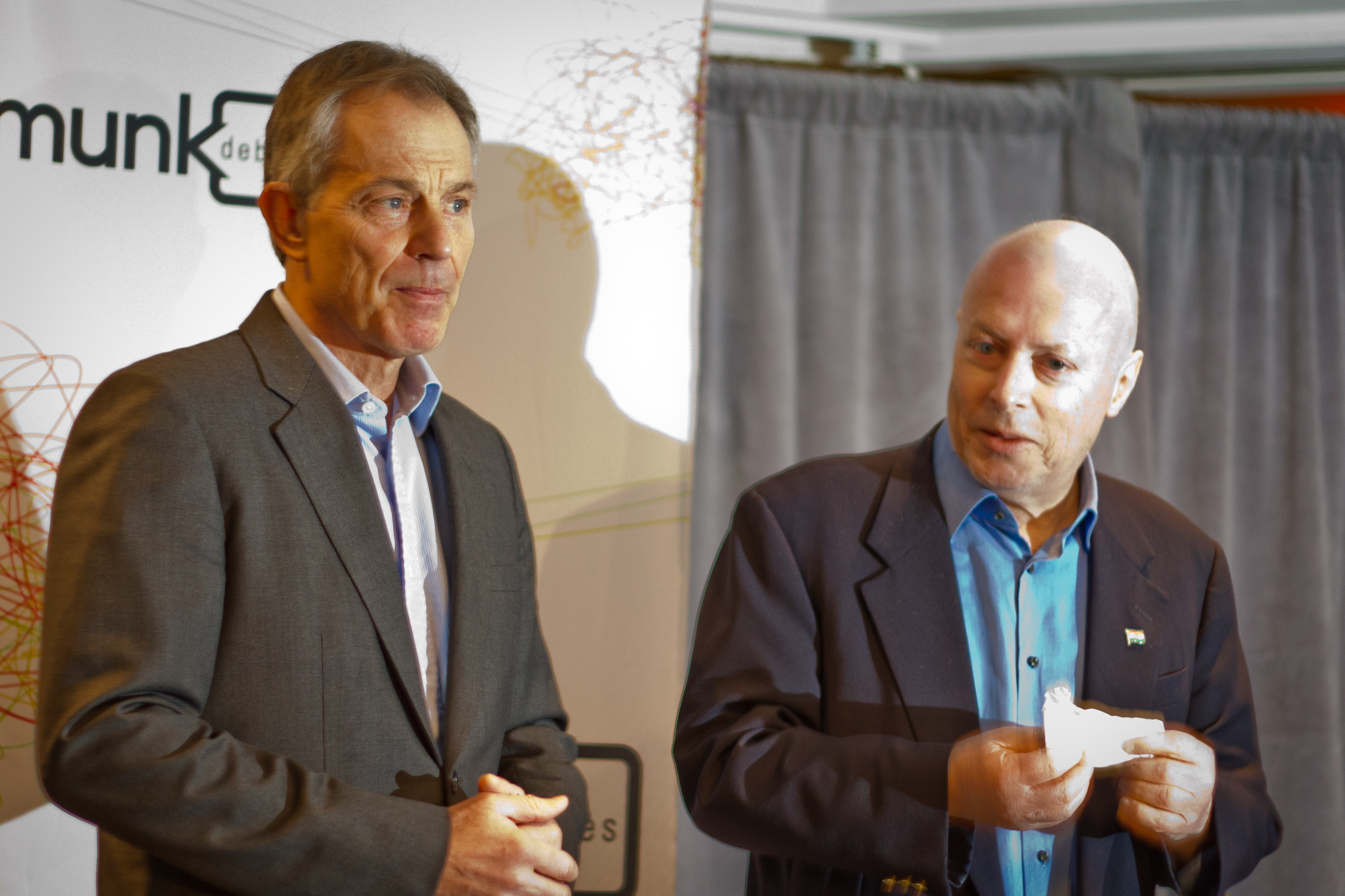 Tony Blair and Christopher Hitchens debate religion at the Roy Thomson Hall in Toronto, Canada